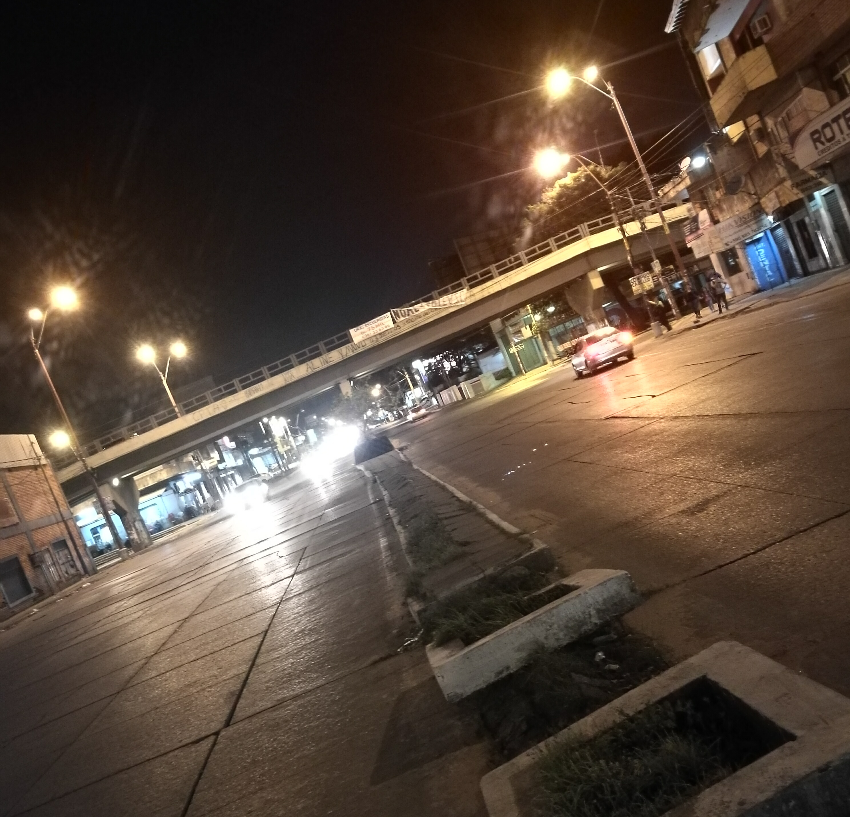 Eusebio Ayala Avenue, in Asunción, Paraguay